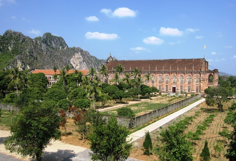 Chau Son Holy Mother Monastery